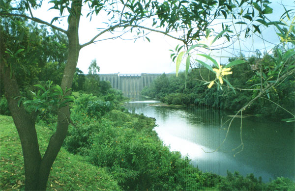 The Koyna Dam in Maharashtra, India Picture taken by be, Nichalp in Sep 2003